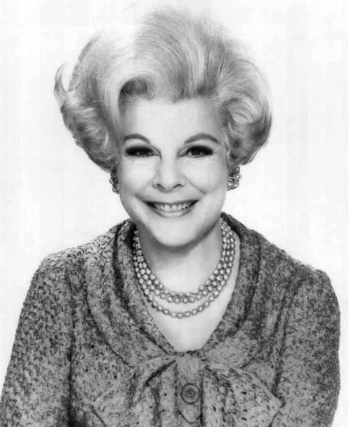 Publicity photo of television talk show hostess Virginia Graham.